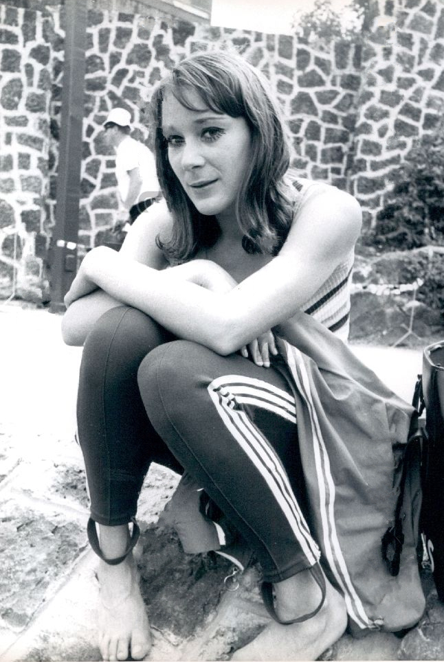 1968 Olympian Sieglinde Waits for Husband Press Photo